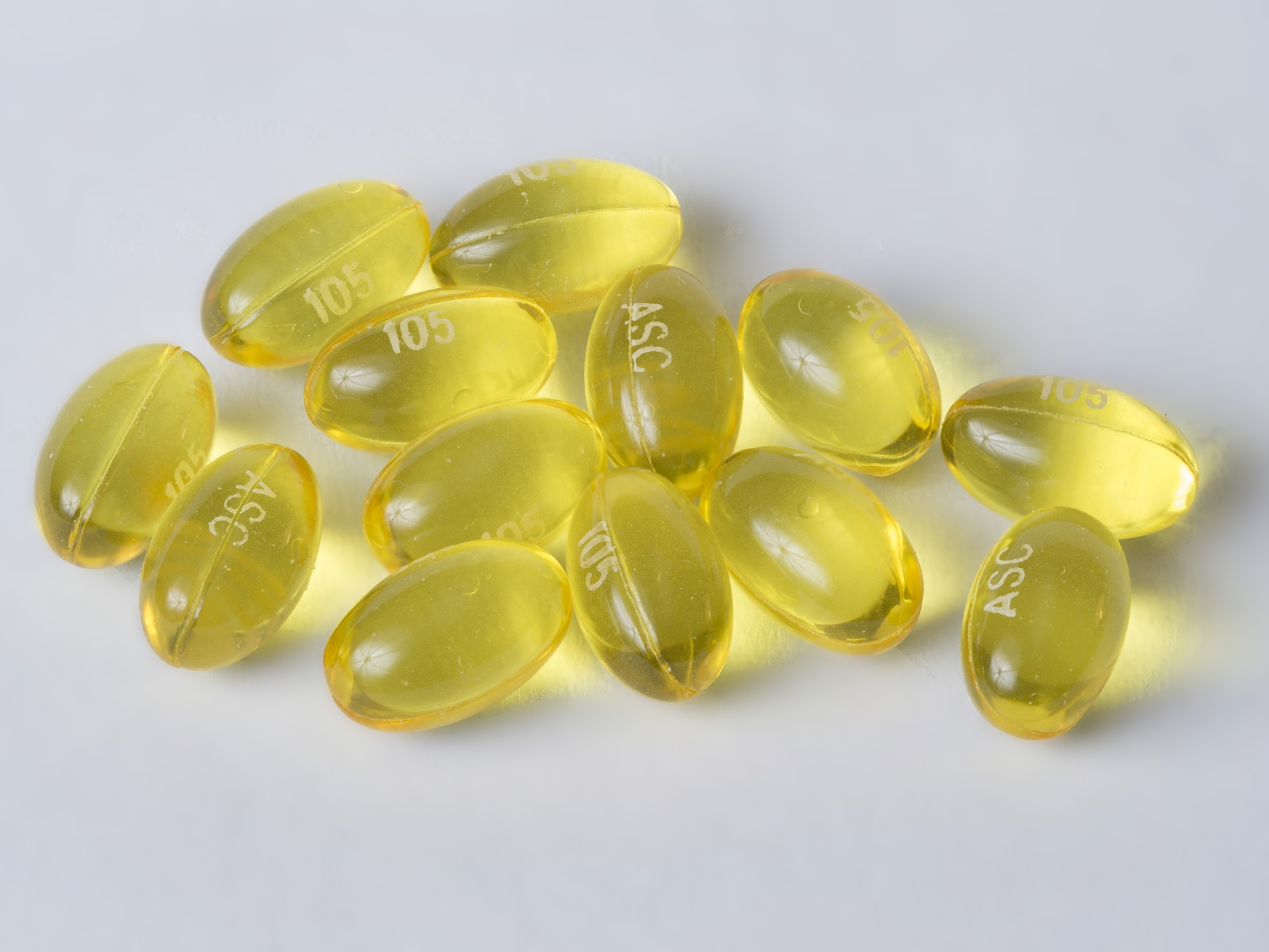 This is a 35 image focus stack of 13 100mg generic Benzonatate capsules.